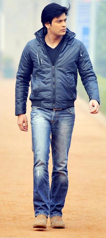 picture at sirifort sports complex, New Delhi